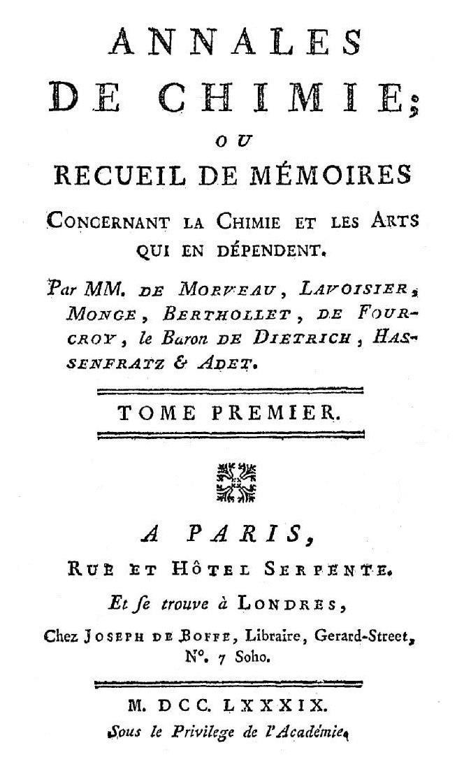 Titlepage Annales de Chimie 1789